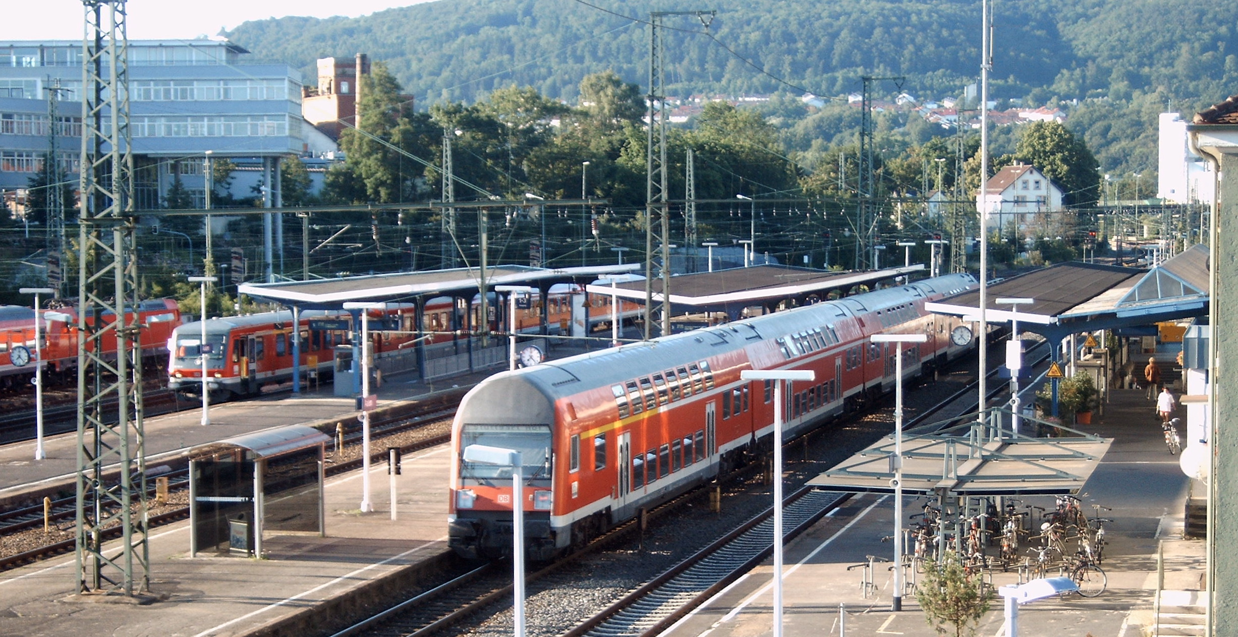 Aalen, Germany, trackside of train station